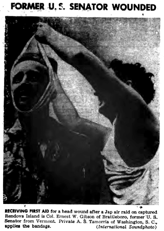 U.S. Senator, Vermont Governor and federal Judge Ernest W. Gibson, Jr. receiving first aid after being wounded in Pacific Theater during World War II.